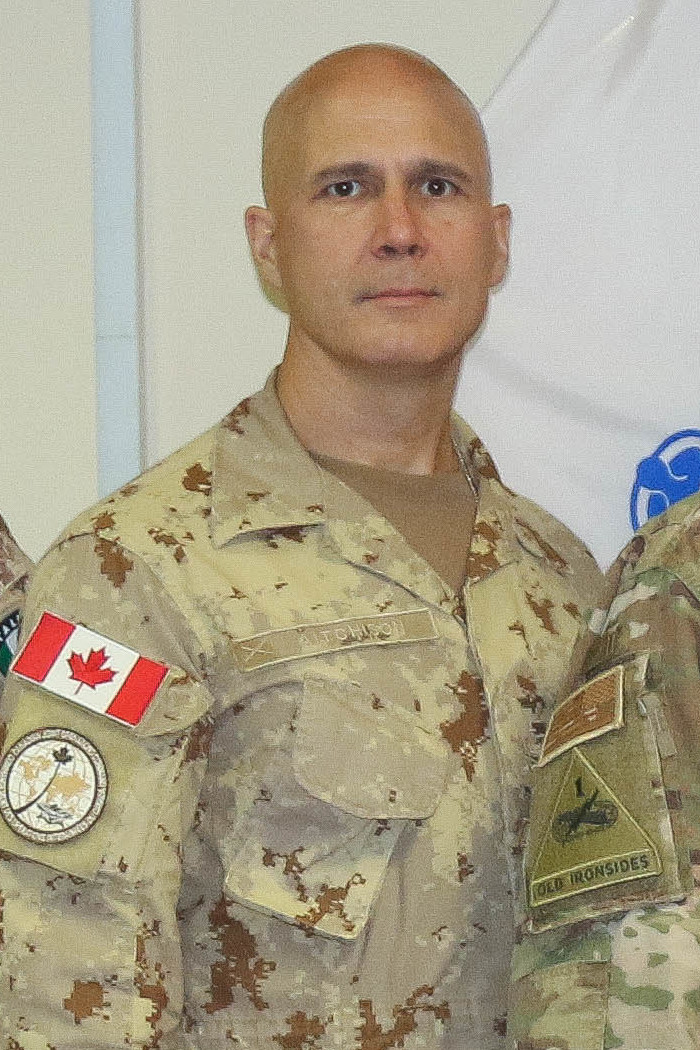 (From left) Italian army Brig. Gen. Francesco Maria Ceravolo, deputy commanding general – training for Combined Forces Land Component Command – Operation Inherent Resolve, Canadian army Brig. Gen. Craig Aitchison, Chief of Staff for CJFLCC-OIR, U.S. Air Force Brig. Gen. Andrew A. Croft, Deputy Commanding General – Air for CJFLCC-OIR, U.S. Air Force Lt. Gen. Jeffrey L. Harrigian, commander of U.S. Air Forces Central Command, U.S. Air Force Gen. David L. Goldfein, Chief of Staff of the U.S. Air Force, Dr. Heather Wilson, Secretary of the U.S. Air Force, U.S. Army Maj. Gen. Pat White, Commanding General of CJFLCC-OIR and 1st Armored Division and Fort Bliss, Texas, and U.S. Army Col. John M. Cushing, Deputy Commanding Officer – Sustainment for CJFLCC-OIR, pose for a group photo in Baghdad, Iraq, Aug.19, 2017. CJFLCC-OIR, a Coalition of 23 regional and international nations which have joined together to enable partnered forces to defeat ISIS in Iraq and restore stability and security. (US Army Photo by Sgt. Von Marie Donato)